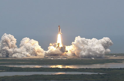 Space Shuttle Atlantis lifts off on mission STS-125 to service the Hubble Space Telescope.